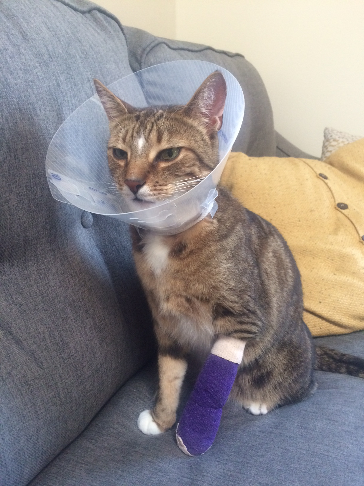 Injured cat wearing an Elizabethan collar